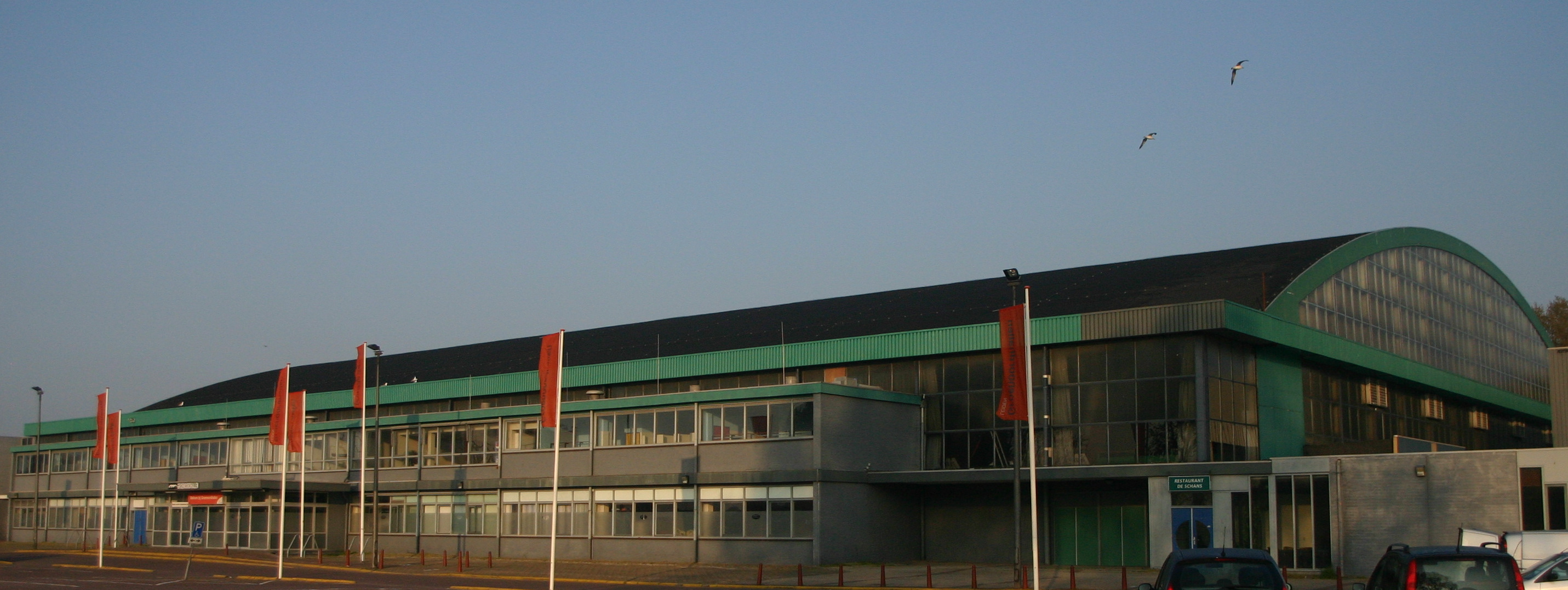 The "Groenoordhallen" is a building complex consisting of two indoor arenas (formerly a cattle market) in the Dutch city of Leiden. It is to be demolished in 2009.